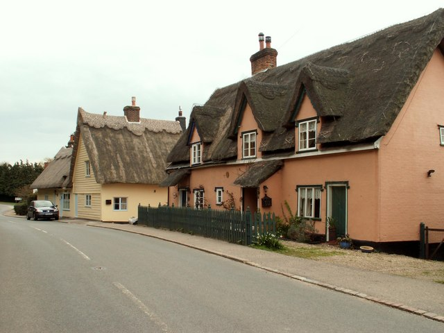 Thatched cottages on the B1029 road at Lamb Corner, Essex. Lamb Corner is between Dedham and Ardleigh.